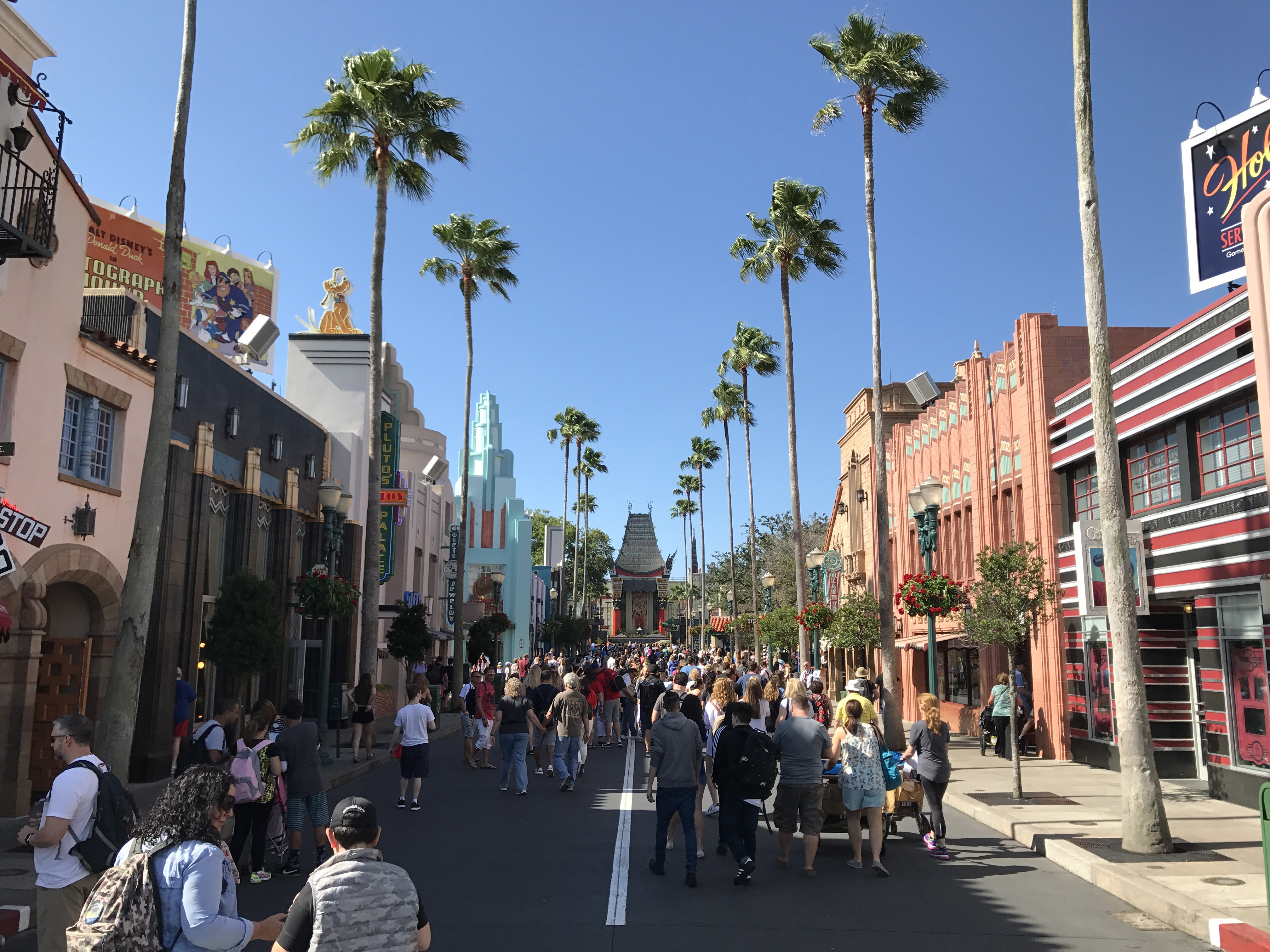 Hollywood Boulevard of Disney's Hollywood Studios.